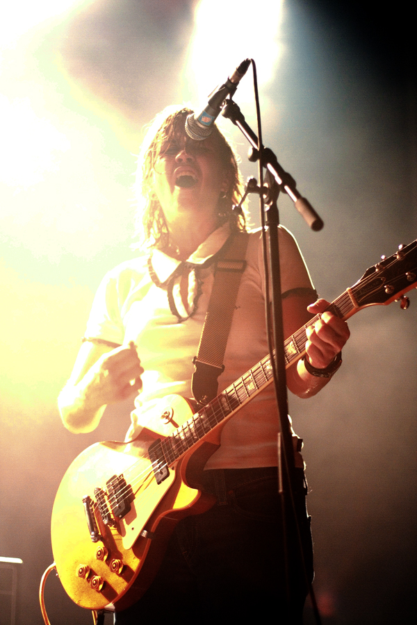 A photograph of American guitarist Ruthie Morris from alternative rock band Magnapop performing at Het Depot in Leuven, Belgium on 2006-04-21